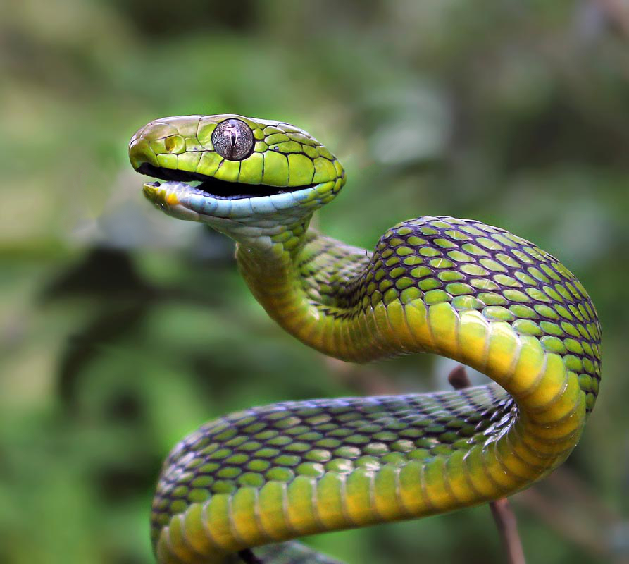 Body color is green whereas color of lower jaw is cyan. long prehensile tail that makes it pure arboreal